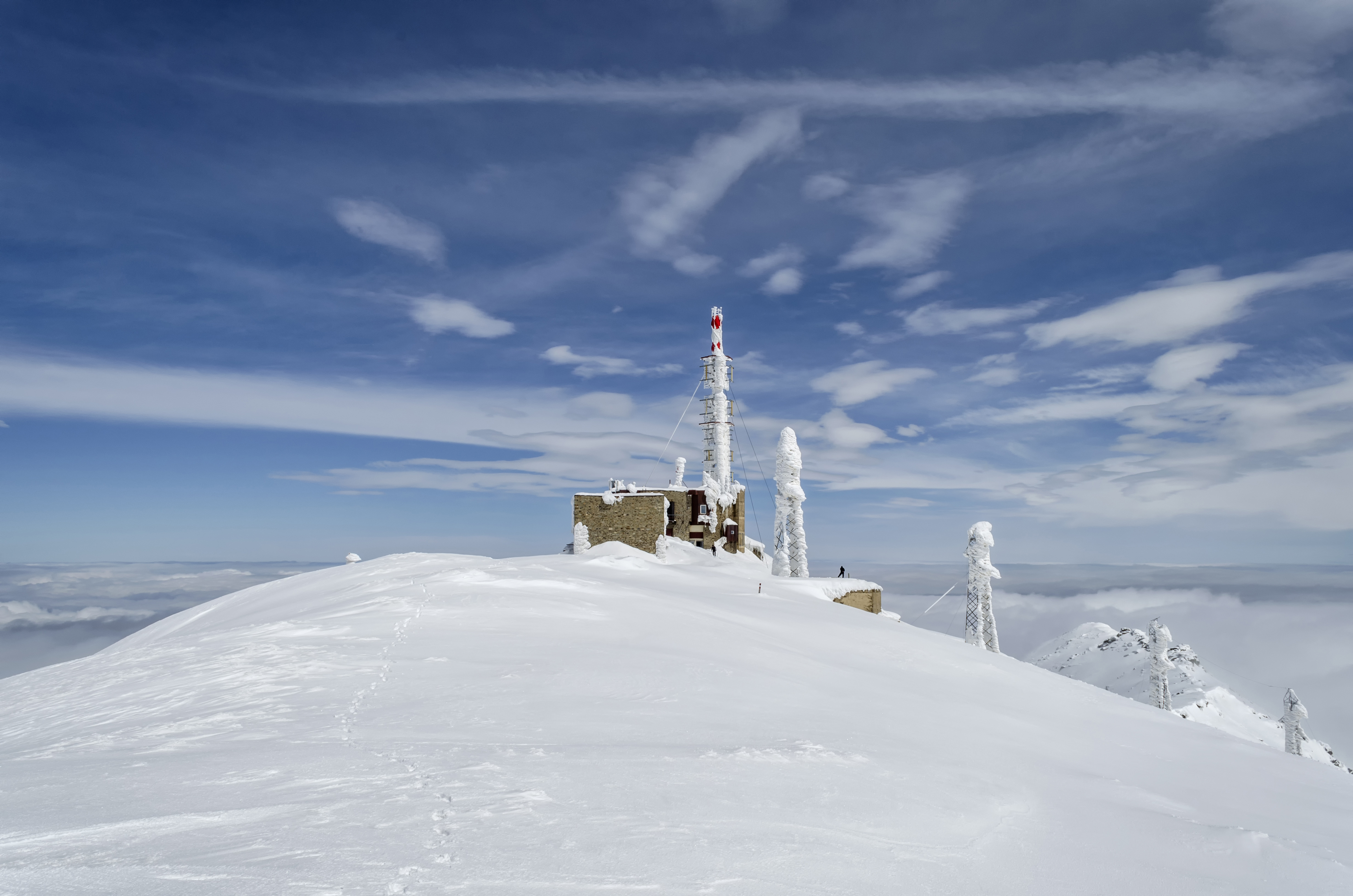 View of the Pelister peak, a mountain in Macedonia standing 2,601 metres tall (8,533 ft)